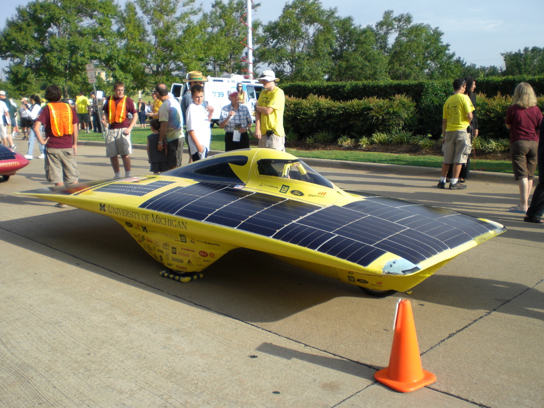 The car of the 2008 University of Michigan Solar Car Team